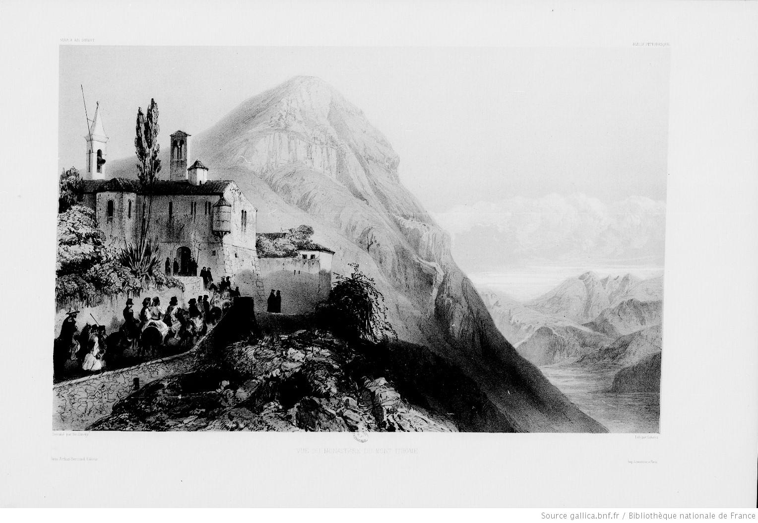 Ithomi in 1847